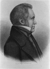 Ridgelyhm